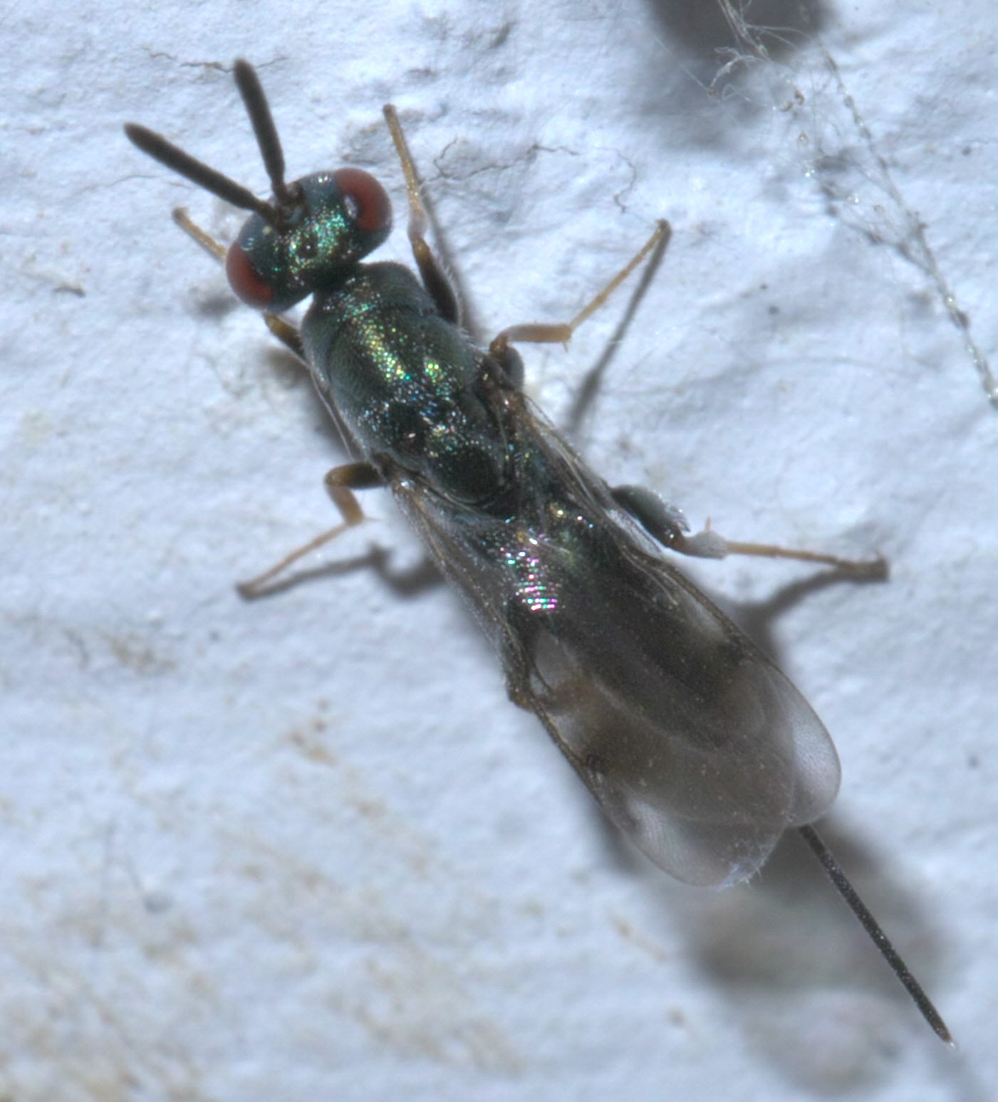 Monodontomerus, Superfamily: Chalcid Wasps, Size: 4.3 mm wingtip, ID Confidence: 98